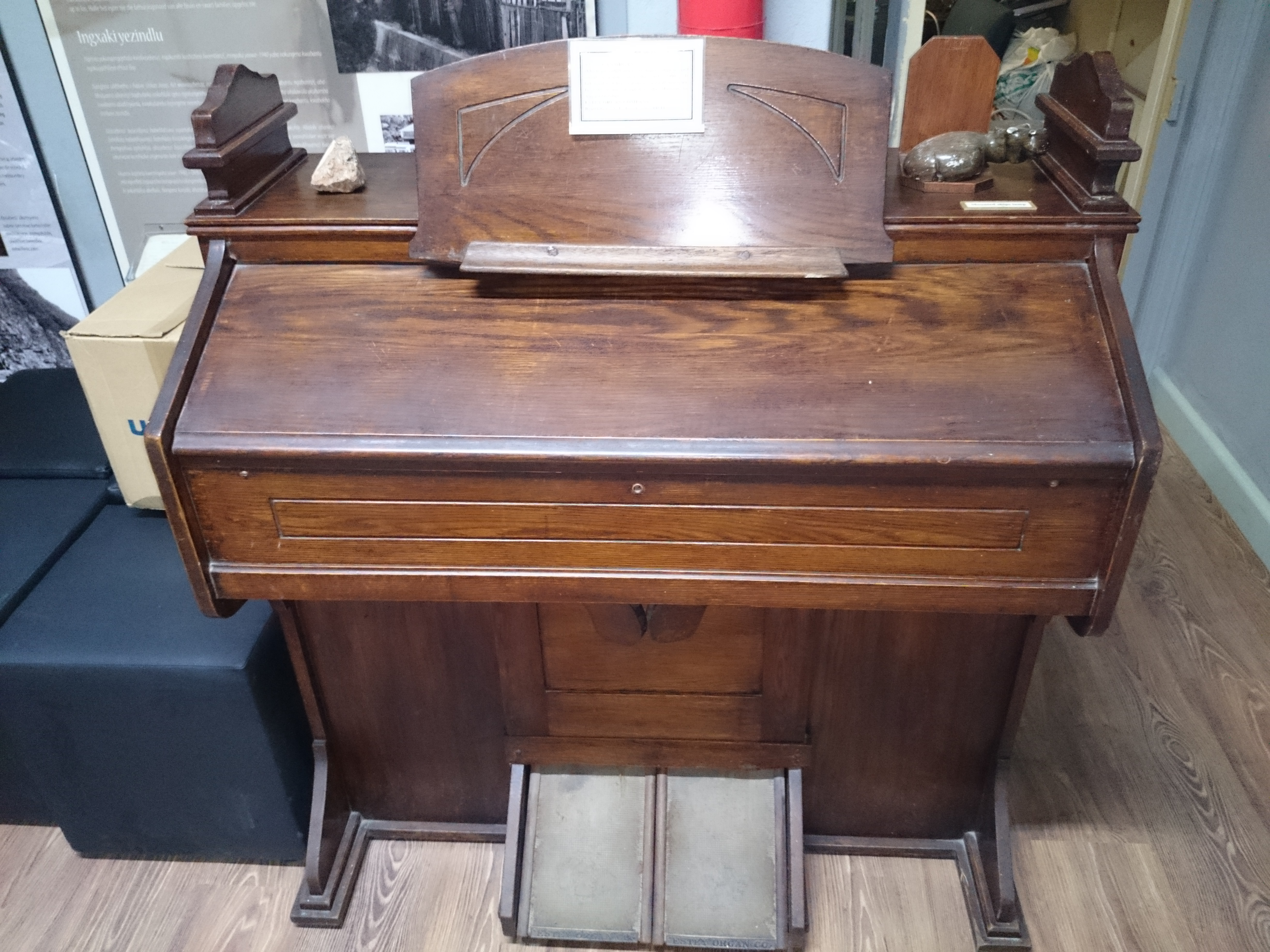 A mechanical organ donated to the Hout Bay Museum by Chris Solomons and family 1983